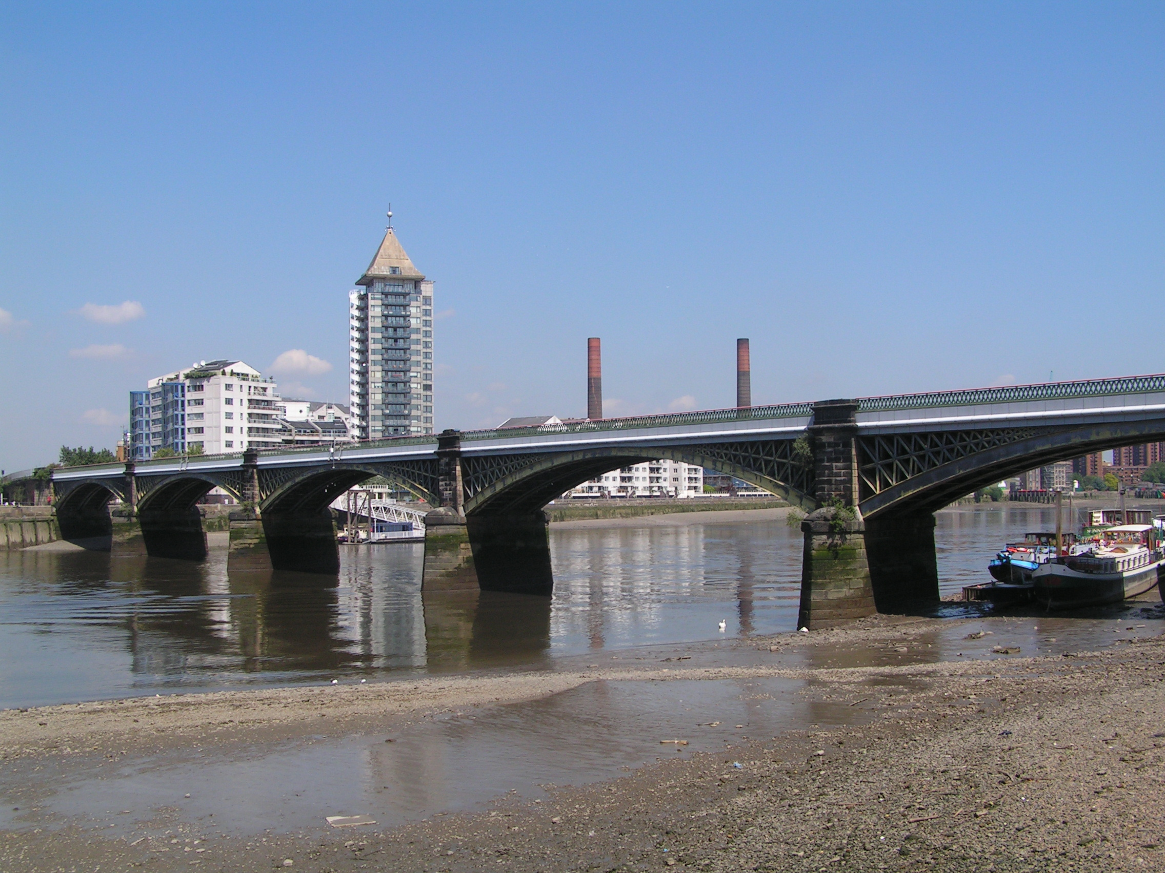 View of Battersea Rail Bridge